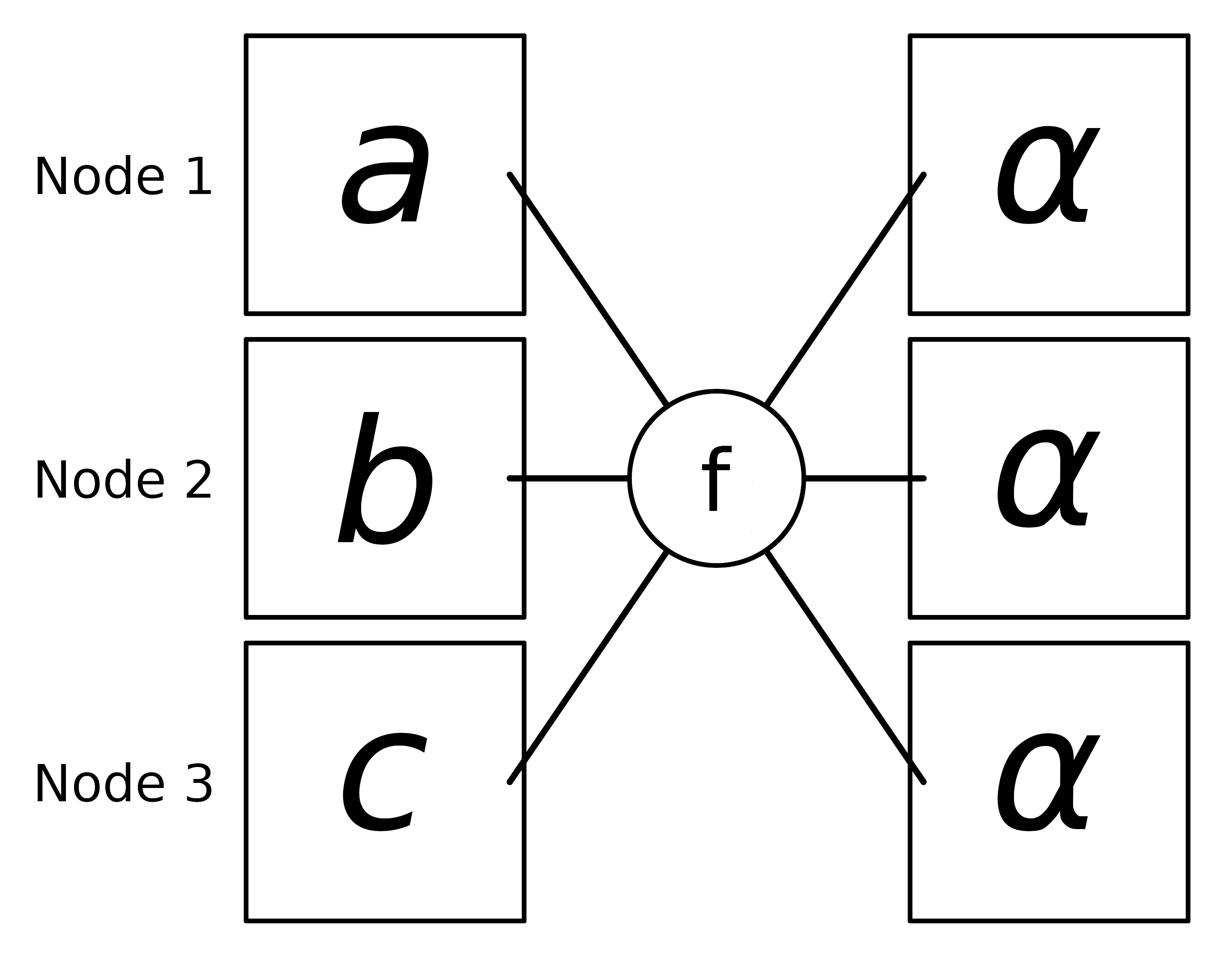 Information from all nodes is combined into a final result alpha, which is computed by an associative operator and stored at all nodes.